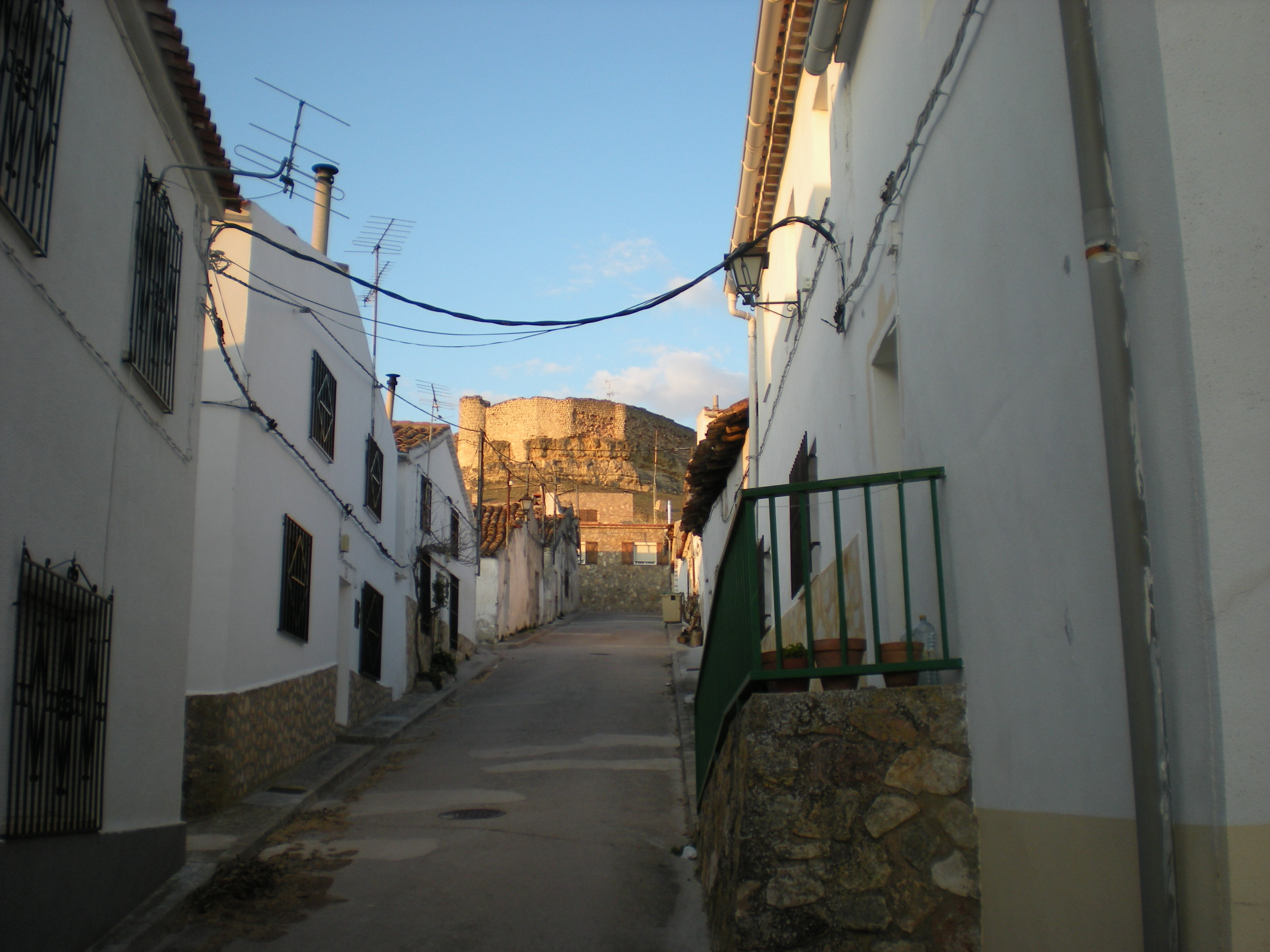 Monteagudo de las Salinas Licensing Category:Municipalities in Cuenca